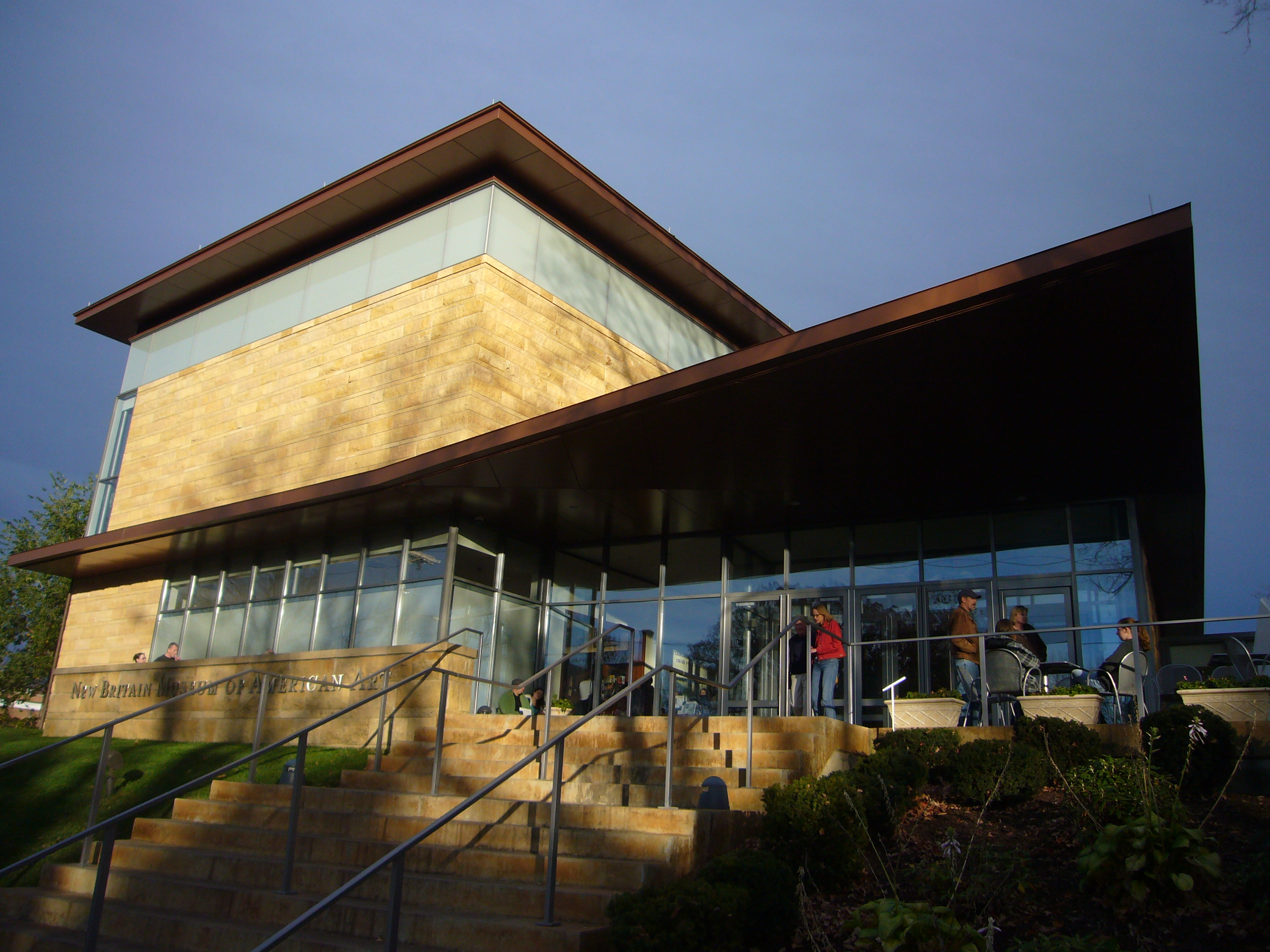 Chase Family Building (exterior) at the New Britain Museum of American Art, New Britain, CT, USA.